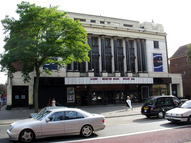 Cineworld Cinema, Ealing, W5 Situated on the busy New Broadway, Uxbridge Road in Ealing, this cinema was opened in 1934. for more information.